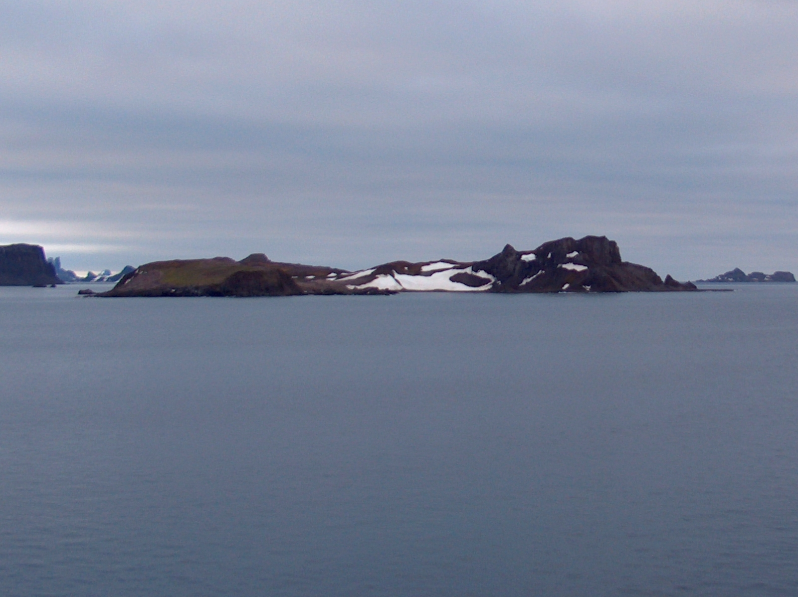 Picture published by the author Lyubomir Ivanov.